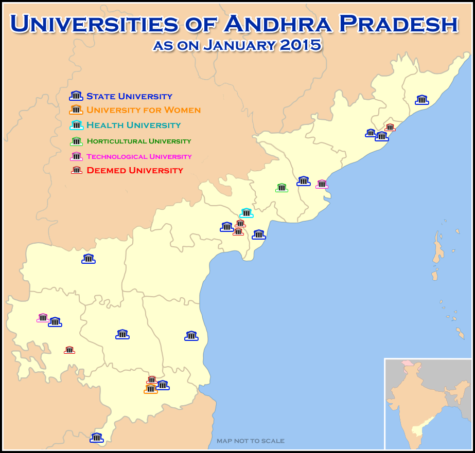 Universities Map of Andhra Pradesh